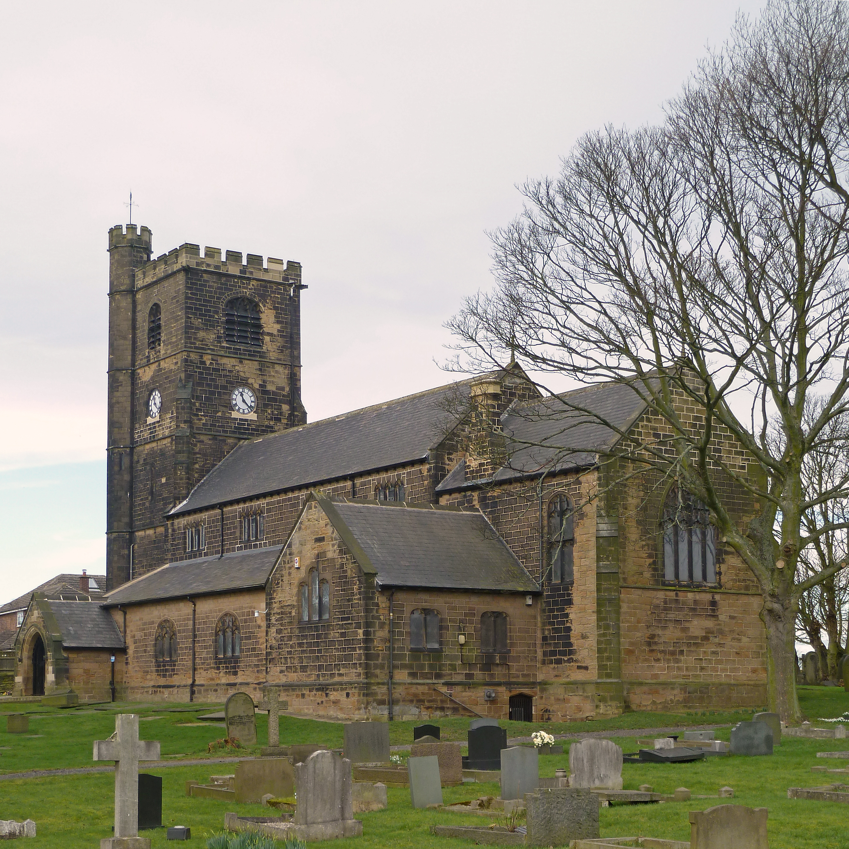 Church of St Michael and All Angels, East Ardsley, Leeds, West Yorkshire, England. Designed 1880-1884 by William Swinden Barber.